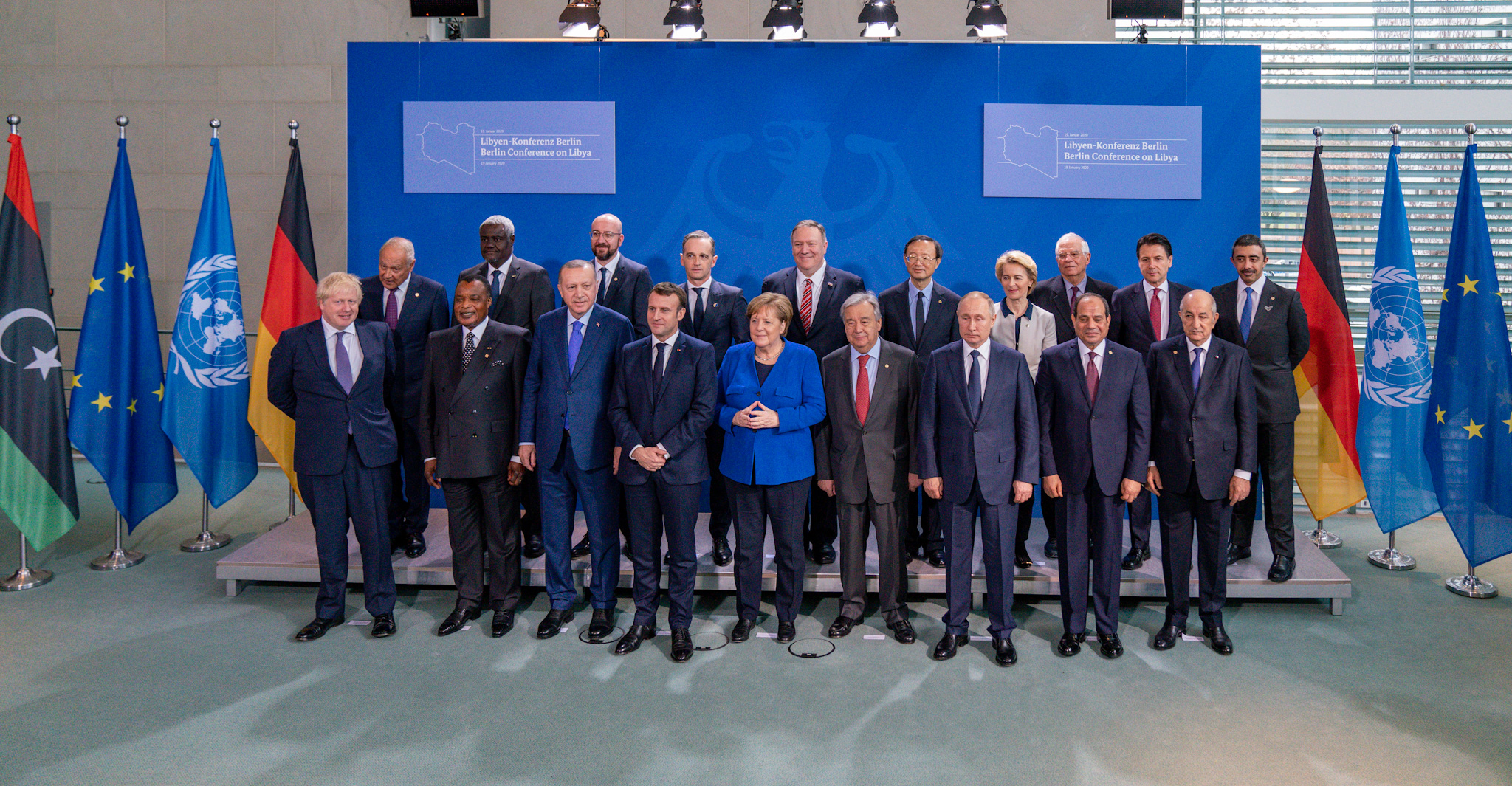 Secretary of State Michael R. Pompeo meets with world leaders at the Libya Summit in Berlin, Germany, on January 19, 2020. [State Department Photo by Ron Przysucha/ Public Domain]